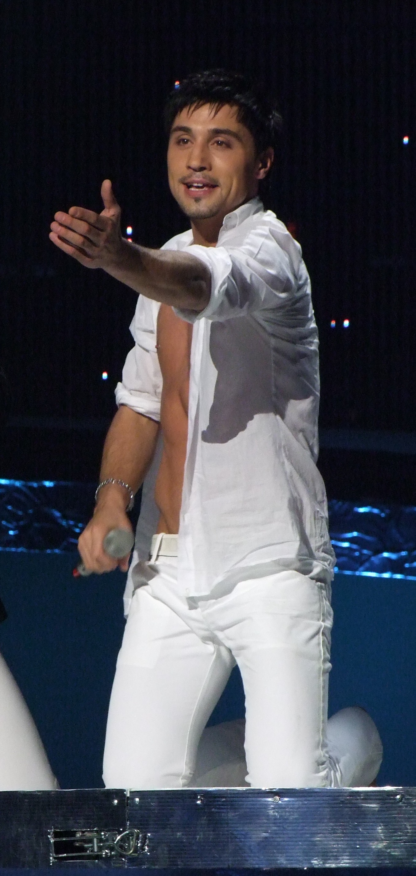 Dima Bilan in the first semi-final at the Eurovision Song Contest in Belgrade, Serbia, May 20, 2008. To the right of the picture, is Russian figure skater, Olympic gold medalist and three-time World Champion Evgeni Plushenko, and to the left is the Hungarian composer and violinist Edvin Marton.